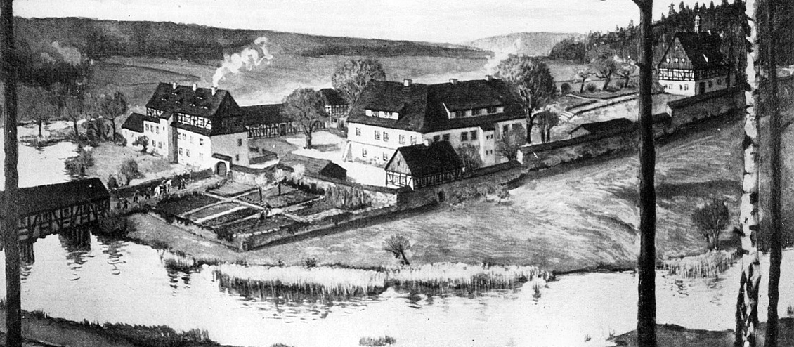 This image shows Grillenburg castle (Jagdschloss Grillenburg) in the Tharandt Forest near Tharandt in Saxony.